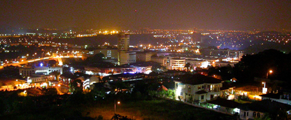 Kajang, Malaysia